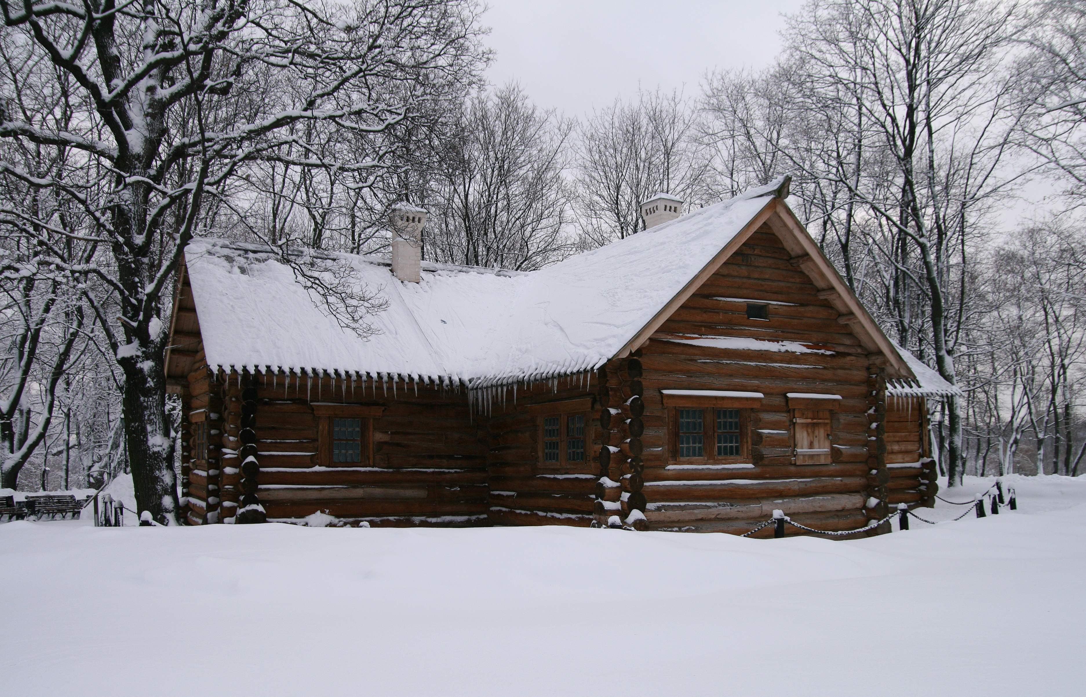 House of Peter I, Kolomenskoye, Moscow